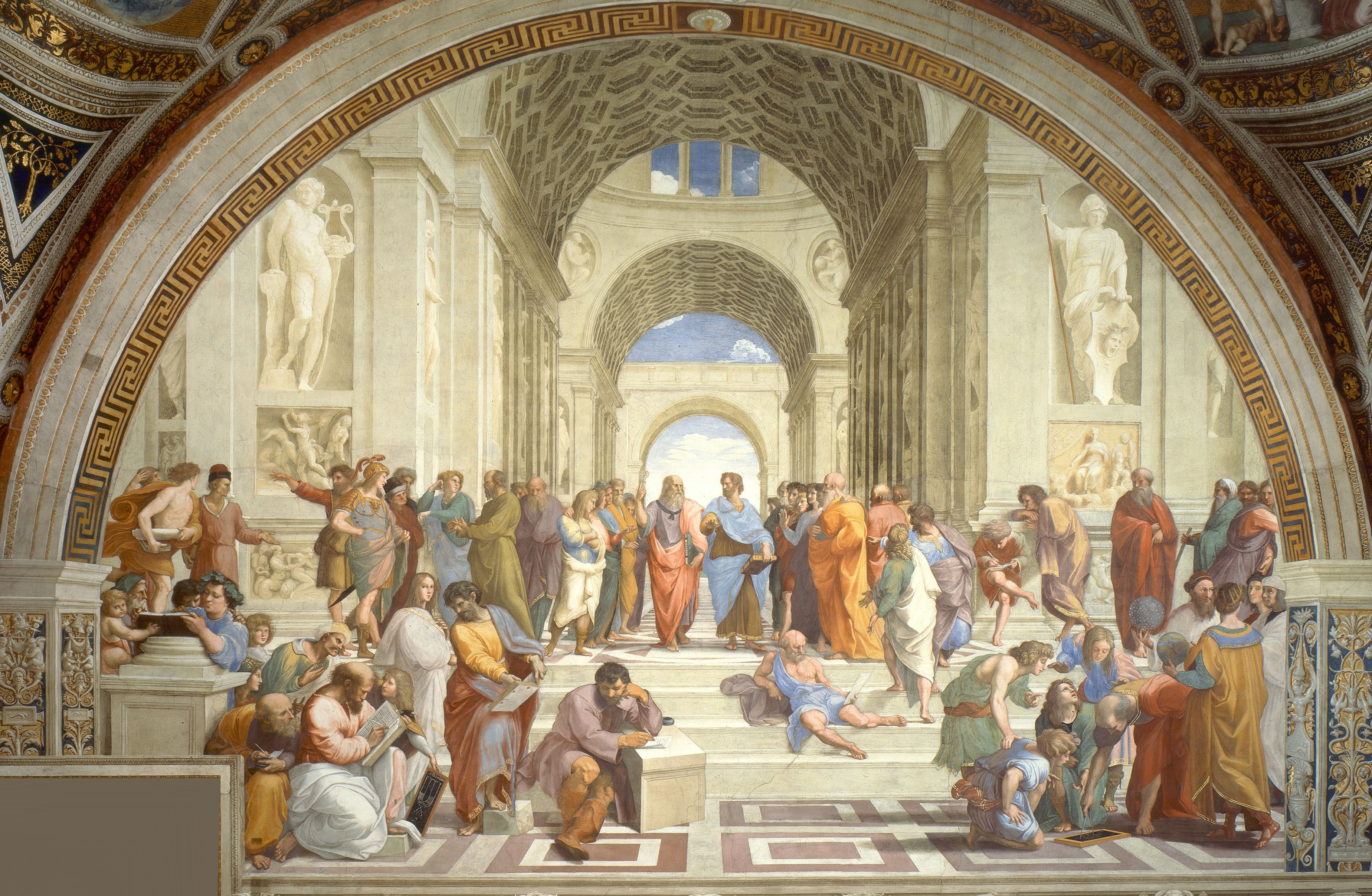 Raphael's "School of Athens"